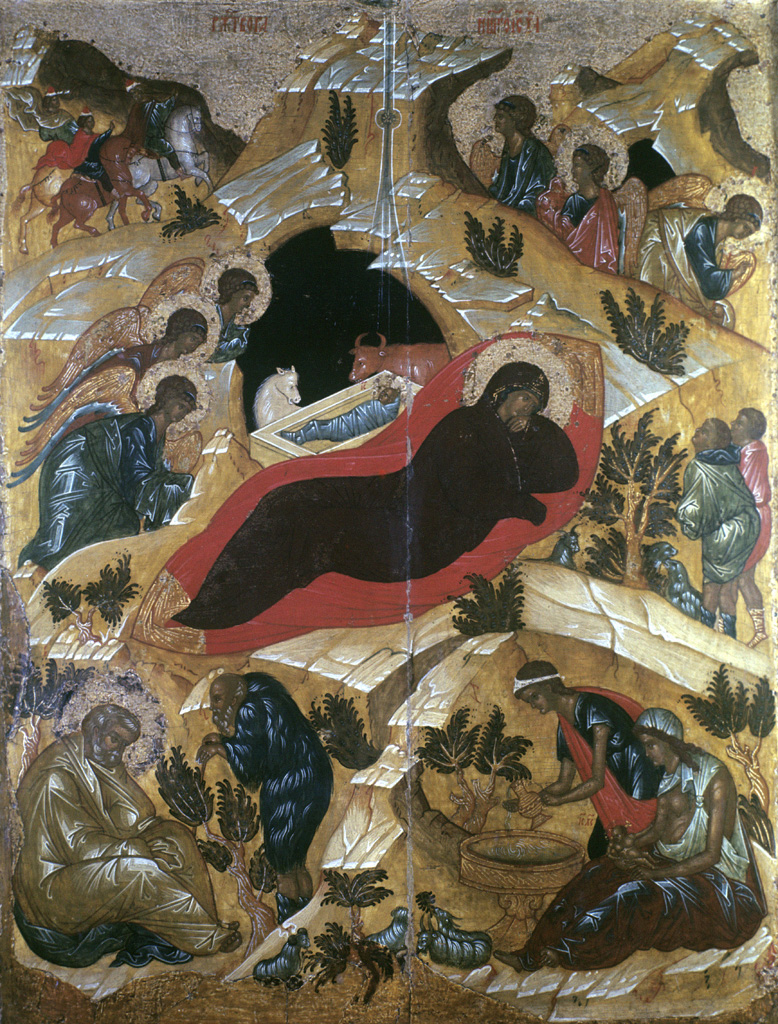 “"The Nativity". Reproduction”. "The Nativity" from the festive row of the iconostasis, early XV century. Reproduction. The State Tretyakov Gallery, Moscow.